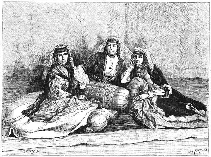 Women from the province of Guria, Georgia. The woman on the right picture "Guria women" - Natalia Gurieli (nee Maisuradze), wife of Prince David Gurieli. Captured at age 22. Considered one of the first beauties of her time, she is often photographed and wrote to her portraits, including in national costume. In the 25 years she was widowed and the rest of his days wearing mourning, no longer posed, walked away from secular life, to deal with children, then her grandchildren. Widowhood lasted more than 50 years.